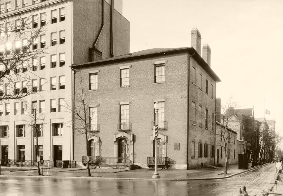 Decatur House (East front, view from Northeast), a Registered Historic Places in the District of Columbia. Designed by Benjamin H. Latrobe and built in 1819, it was the home of Commodore Stephen Decatur. 1937 photograph from the HABS—Historic American Buildings Survey images of Washington, D.C..